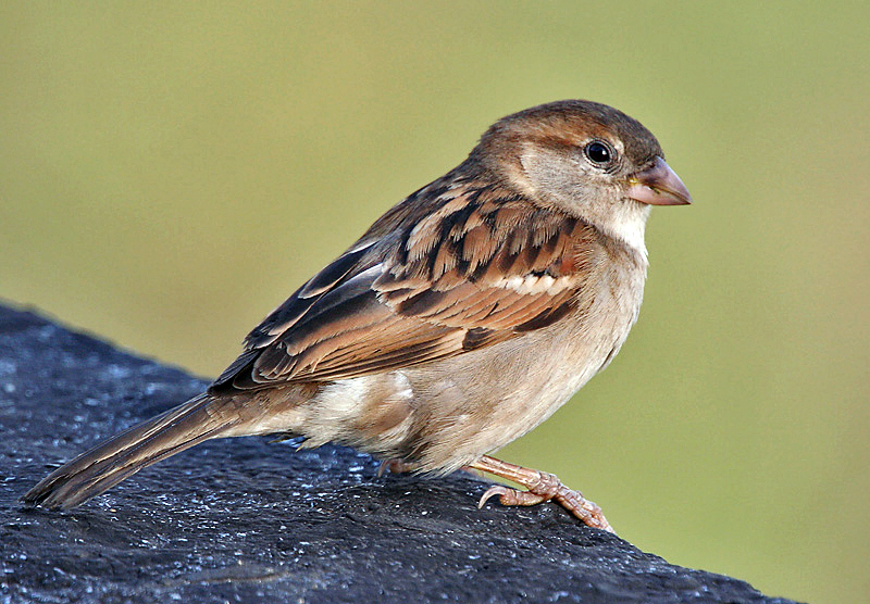 House Sparrow (Passer domesticus) in Kolkata, West Bengal, India.